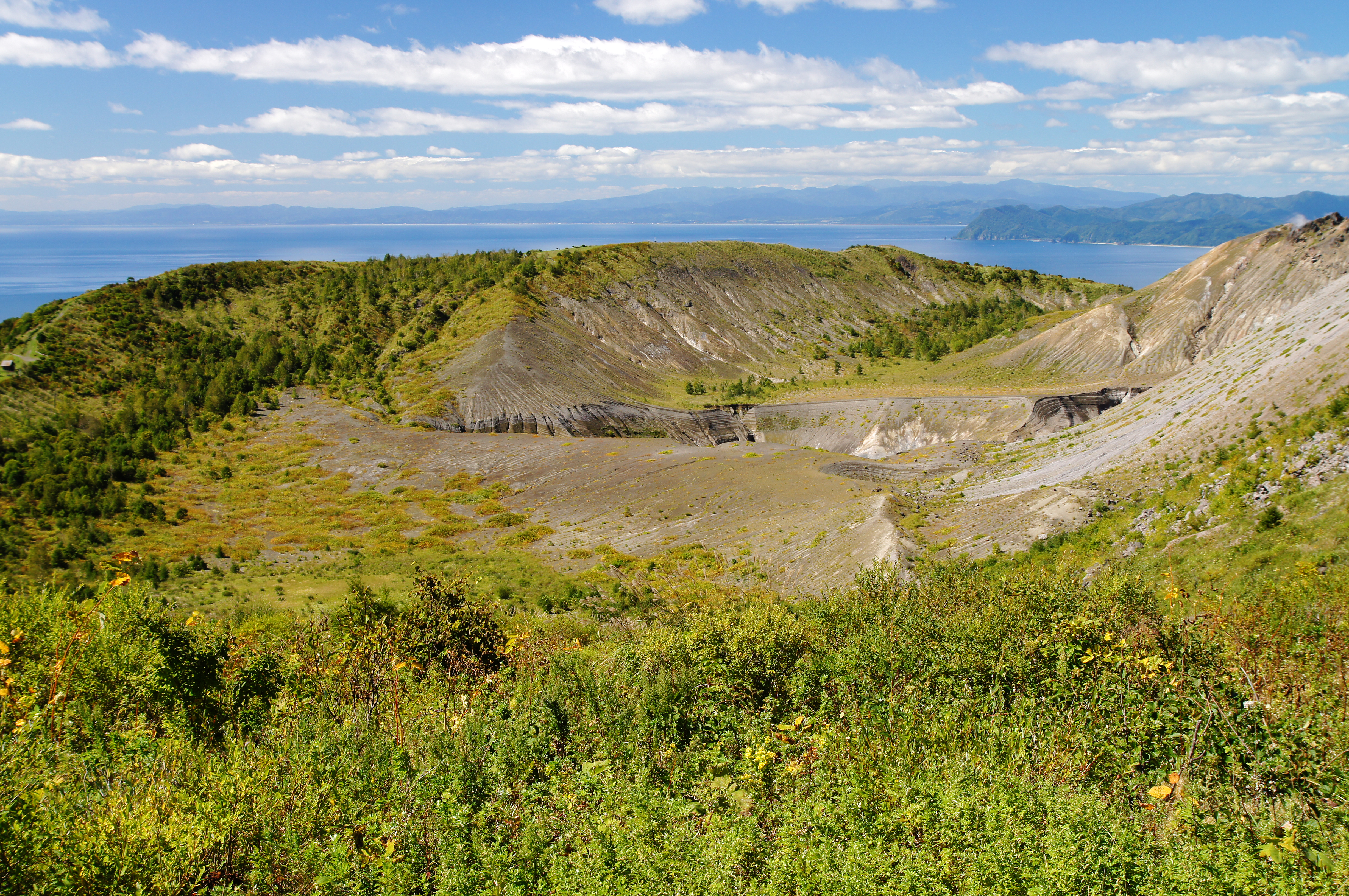 Mount Usu at Sobetsu, Hokkaido prefecture, Japan.